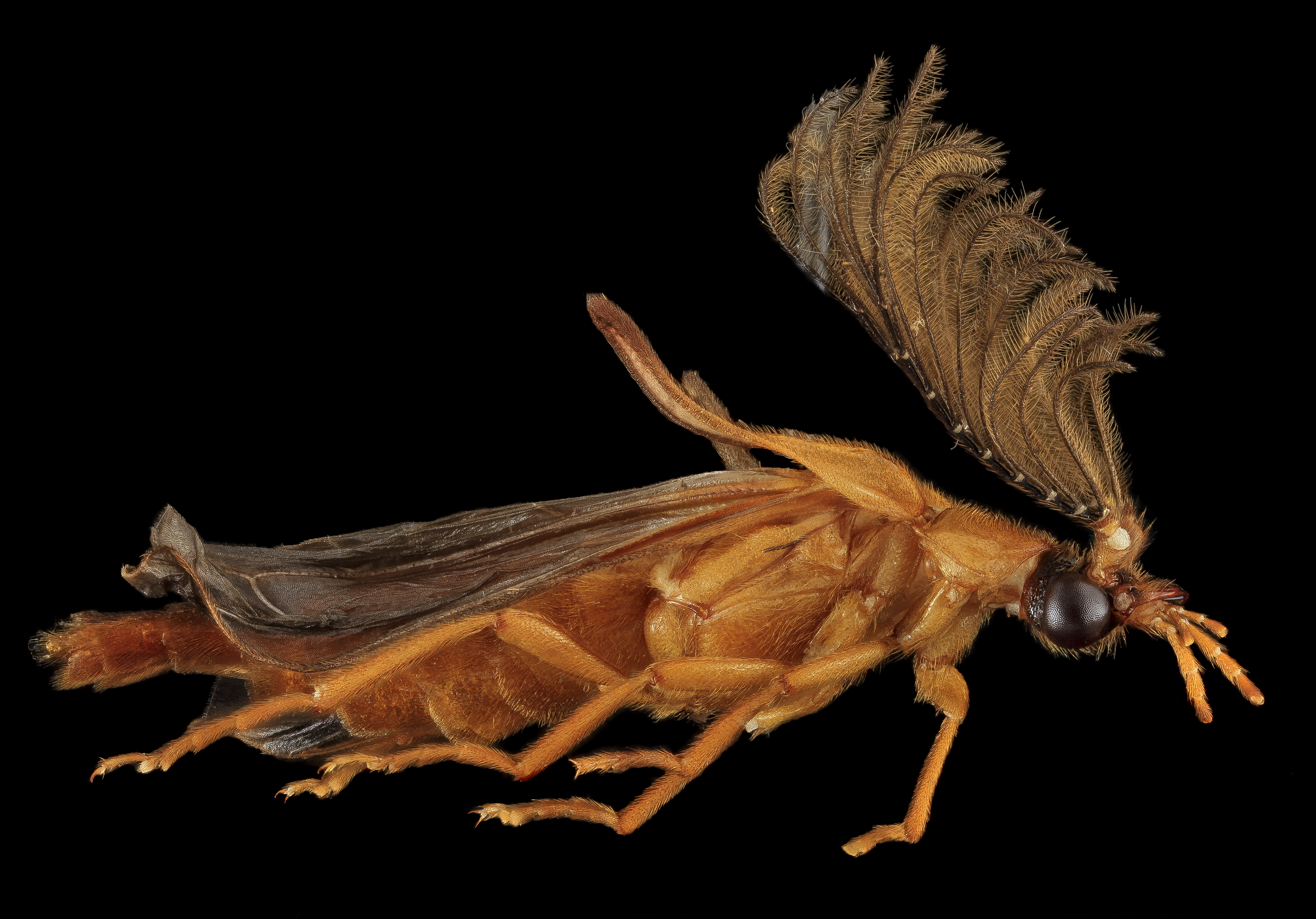 I will have to look up the location back at the lab, but it came from one of the eastern forest service glycol traps...one of the glowworm species